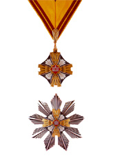 Source: [1]